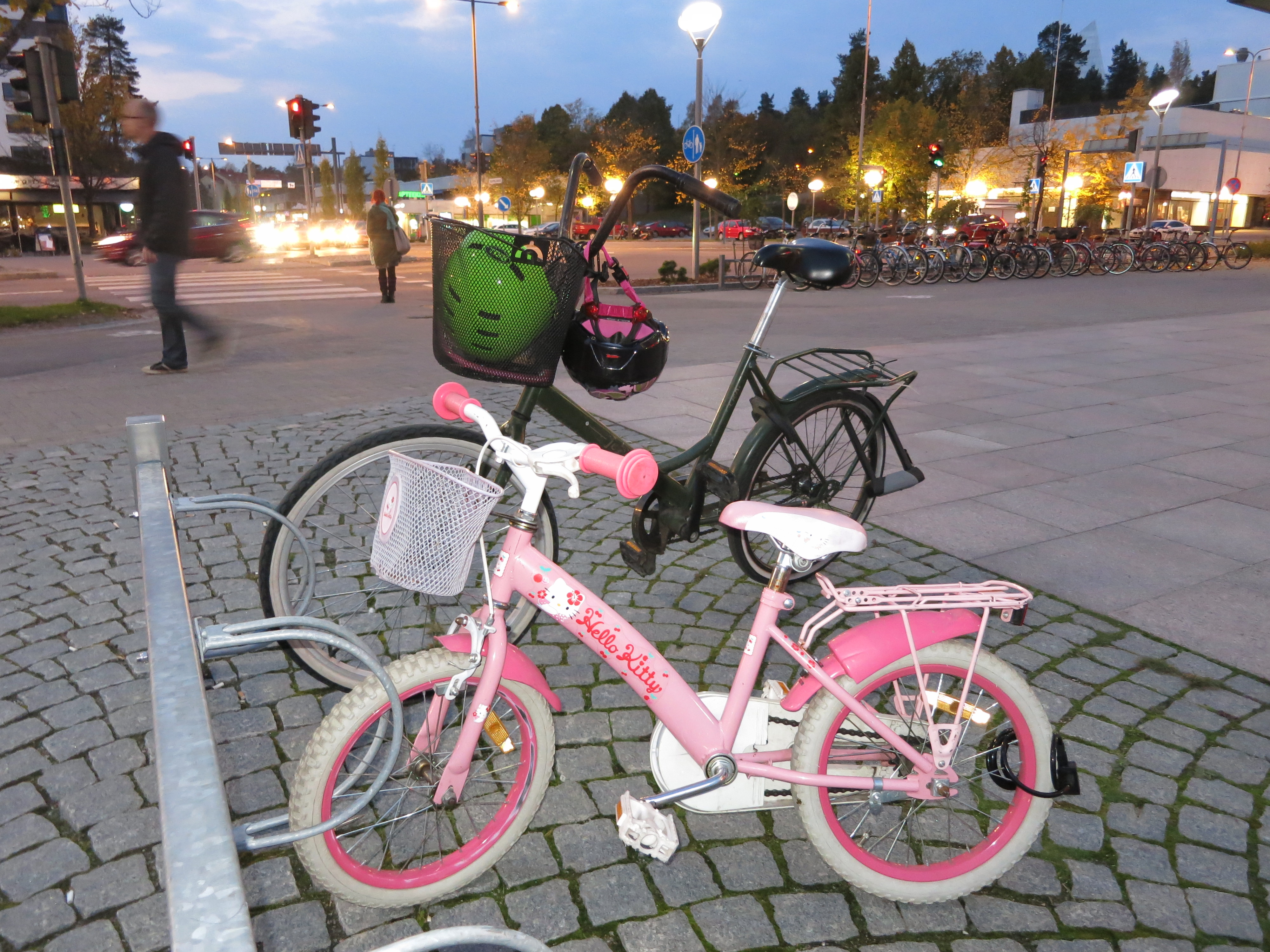 Bicycles in the centre of small town at night (Hyvinkää, Finland)